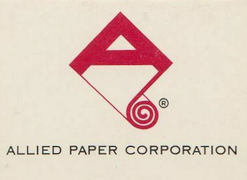 This is an Allied Paper Corporation logo used on corporate stationary, advertising items and marketing materials. It dates to the 1960s but it would have been retired after the takeover by SCM in 1967. Allied Paper became defunct in 1988..